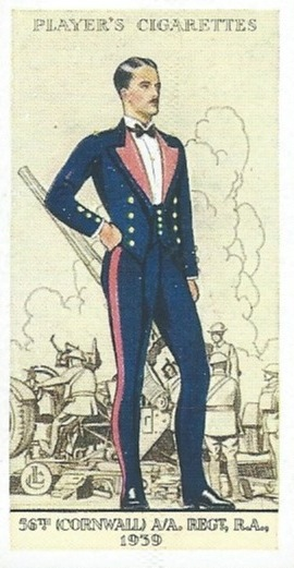 Players' Cigarette Card 1939 showing an officer of the 56th (Cornwall) Heavy Anti-Aircraft Regiment, Royal Artillery, wearing Mess Dress